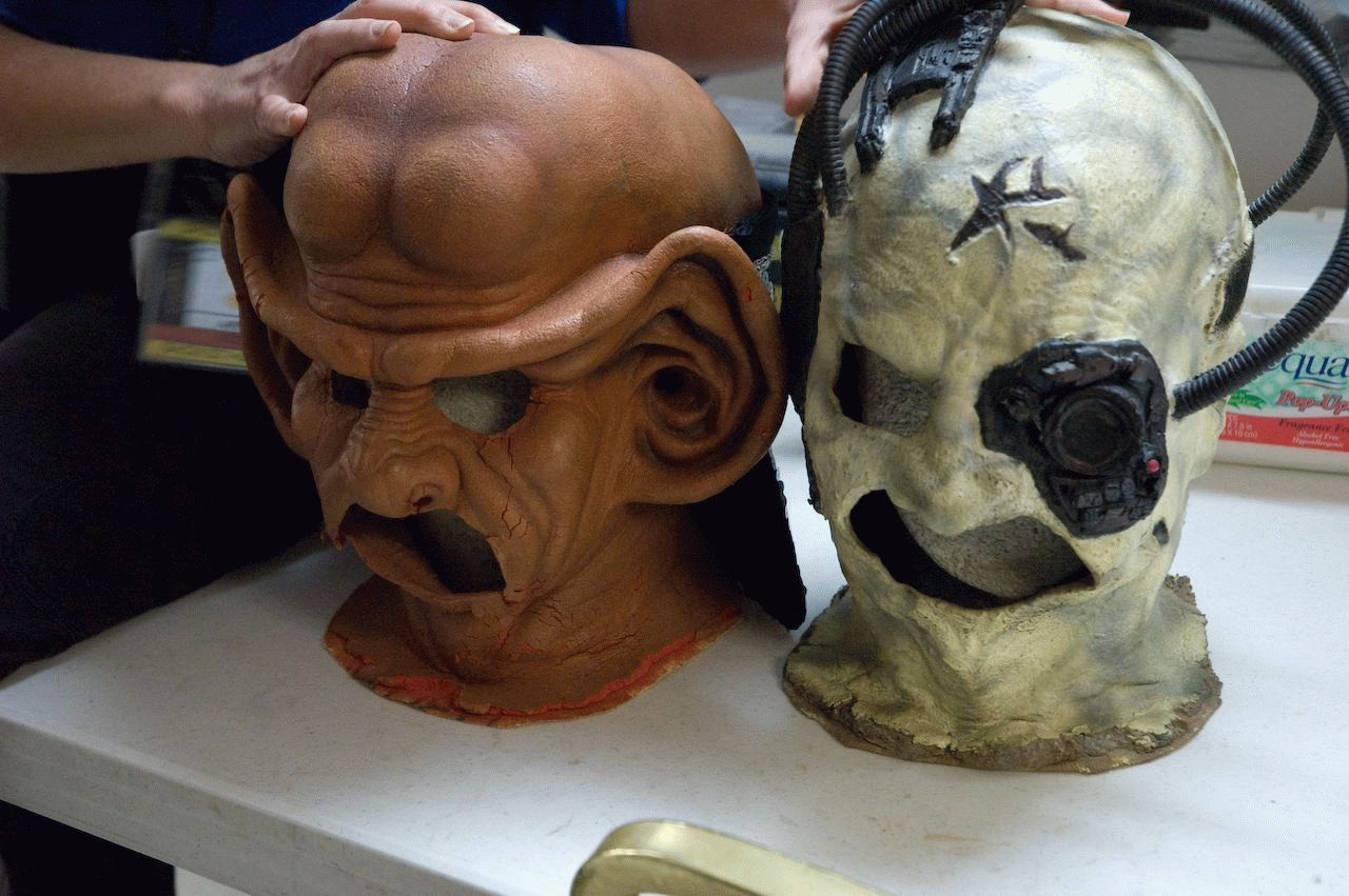 halloween masks ferengi, borg, star trek While in Las Vegas Chuck and I got a backstage tour of the Star Trek Experience at the Las Vegas Hilton for Technorama. Watch the Technorama site for an Audio and Video tour coming soon. It is stuff we can't show till after it closes on September 1st!